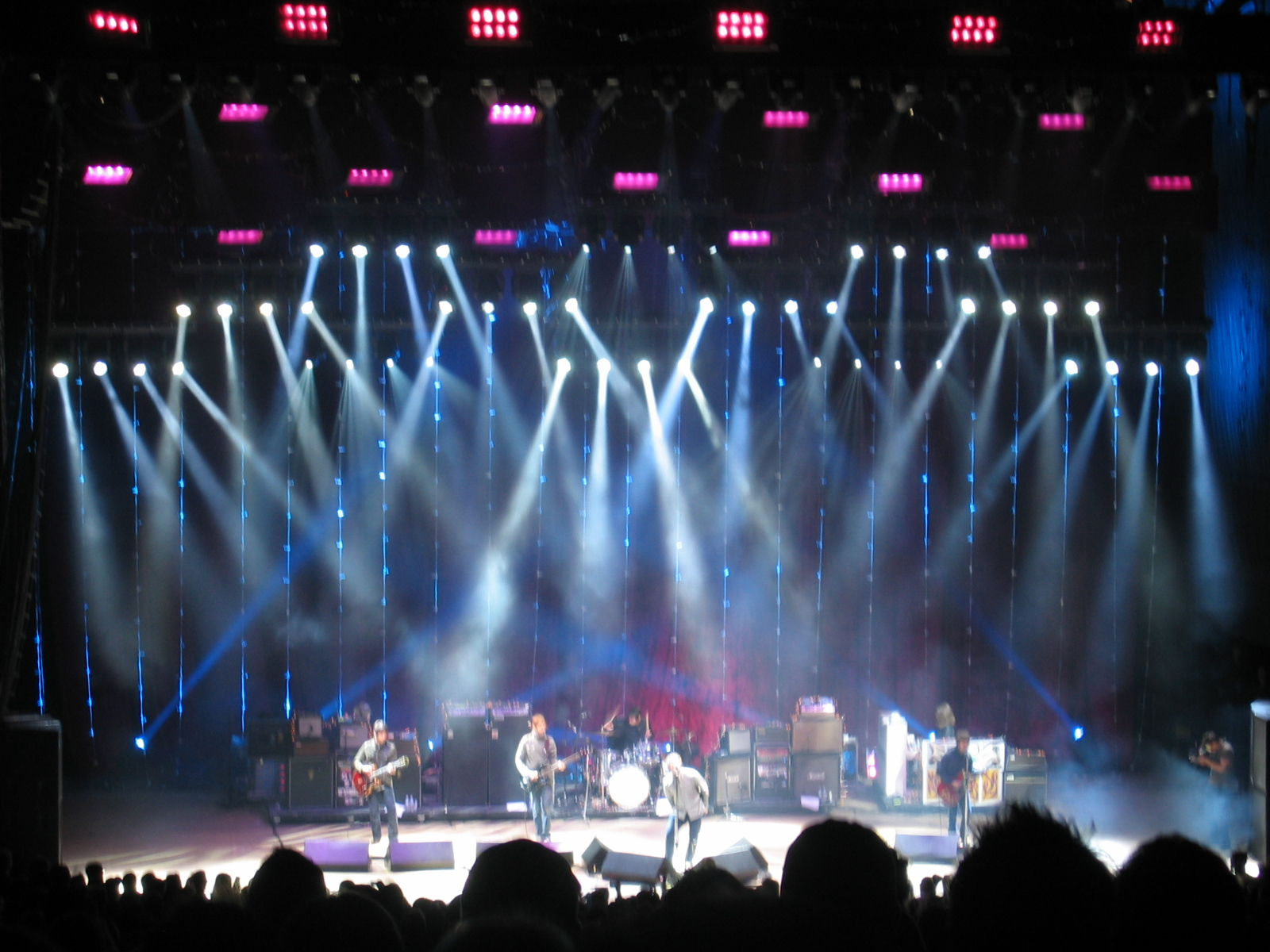 Oasis concert at Shoreline Amphitheatre in Mountain View, California, September 11, 2005Oasis Concert.